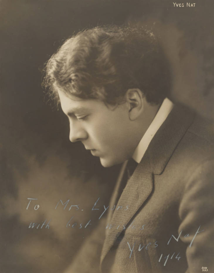 French pianist and composer Yves Nat in 1913-1914.